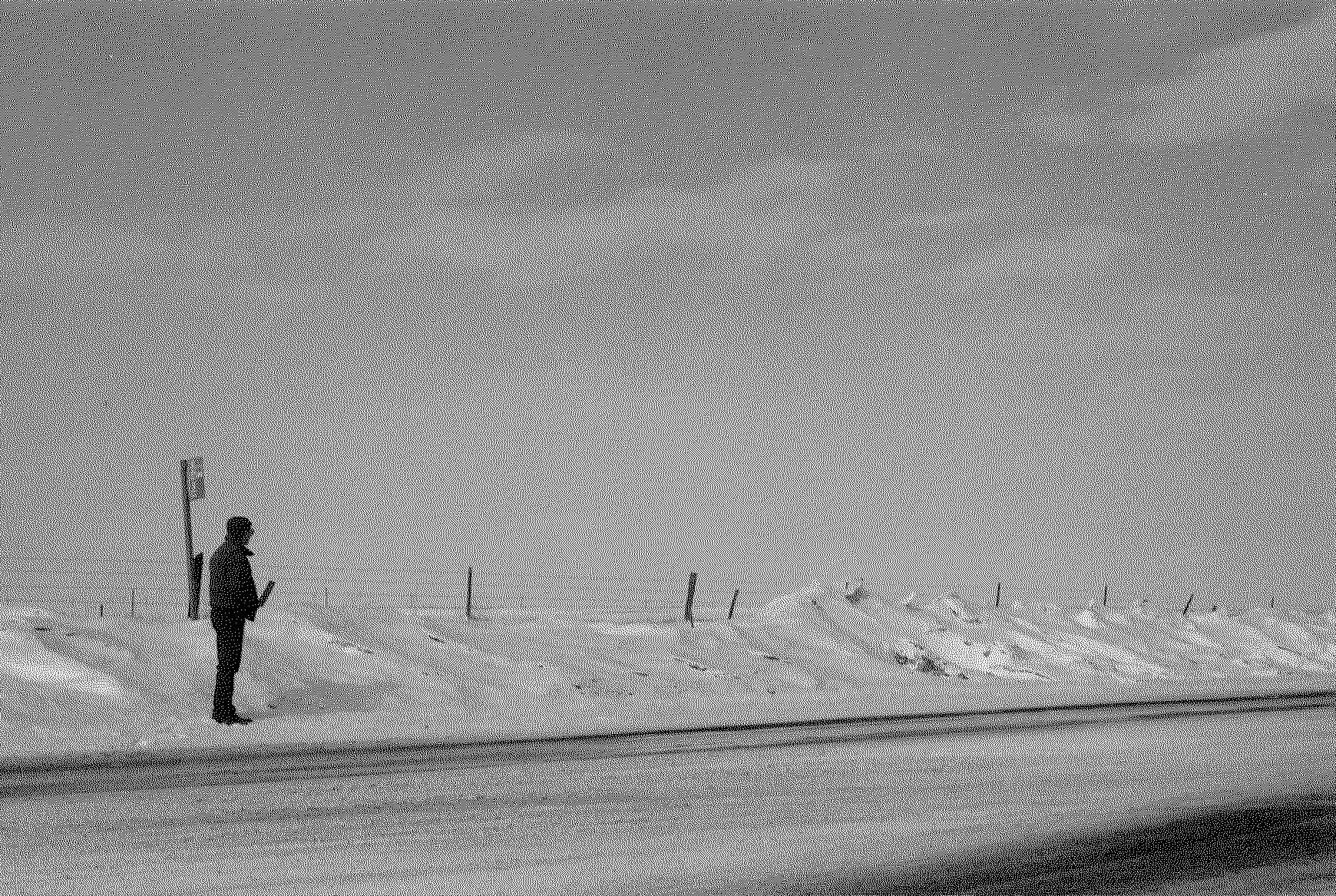 Low density areas result in the RTD providing service at lonely locations. Waiting for Rte 108X - Countryside Express. Photo by R. W. Rynerson.